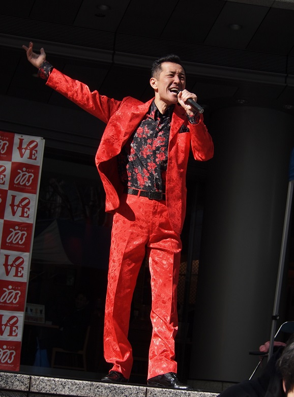 ものまねタレント原俊作